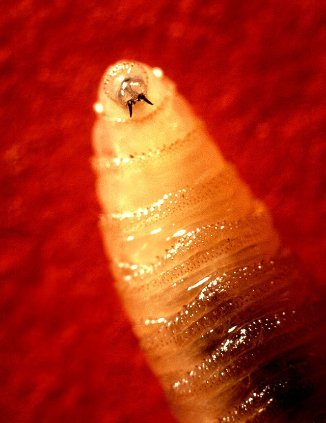 Screwworm larva. Tusklike mandibles protruding from the screwworm larva's mouth rasp the flesh of living warm-blooded animals. A wound may contain hundreds of such larvae.